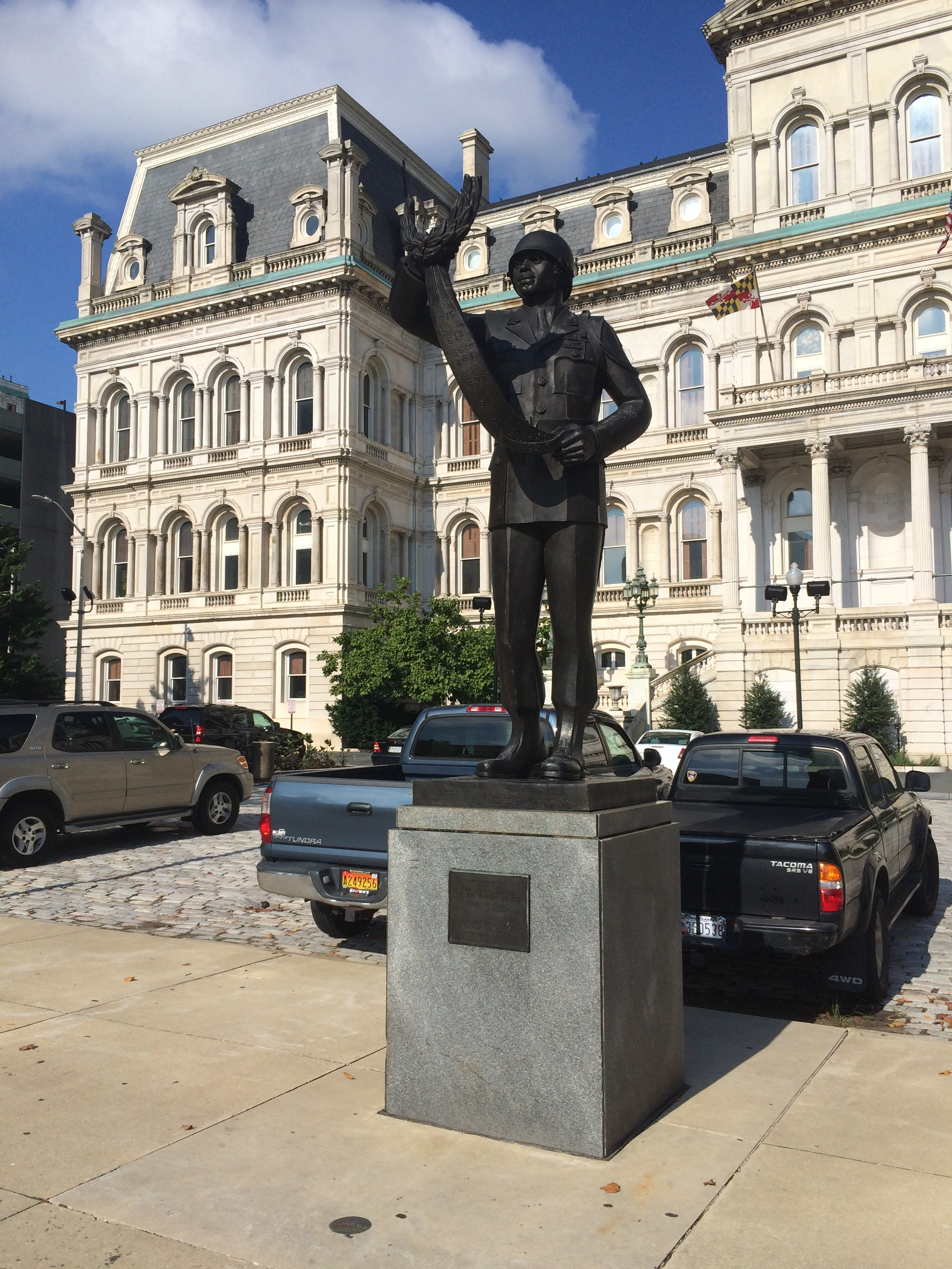 Photograph by Eli Pousson, 2016 July 29.